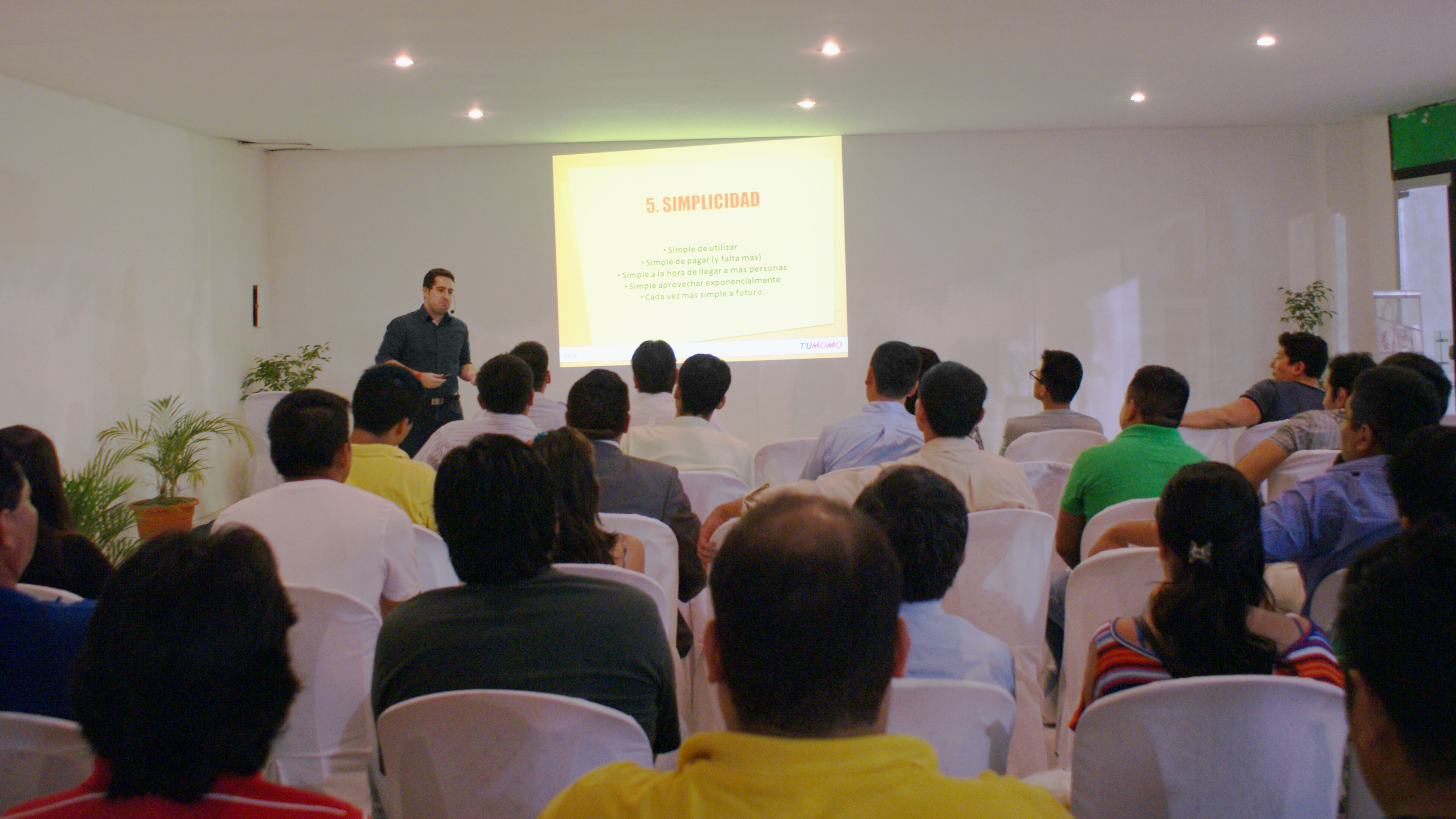 conferencia privada en la Expoteleinfo 2014